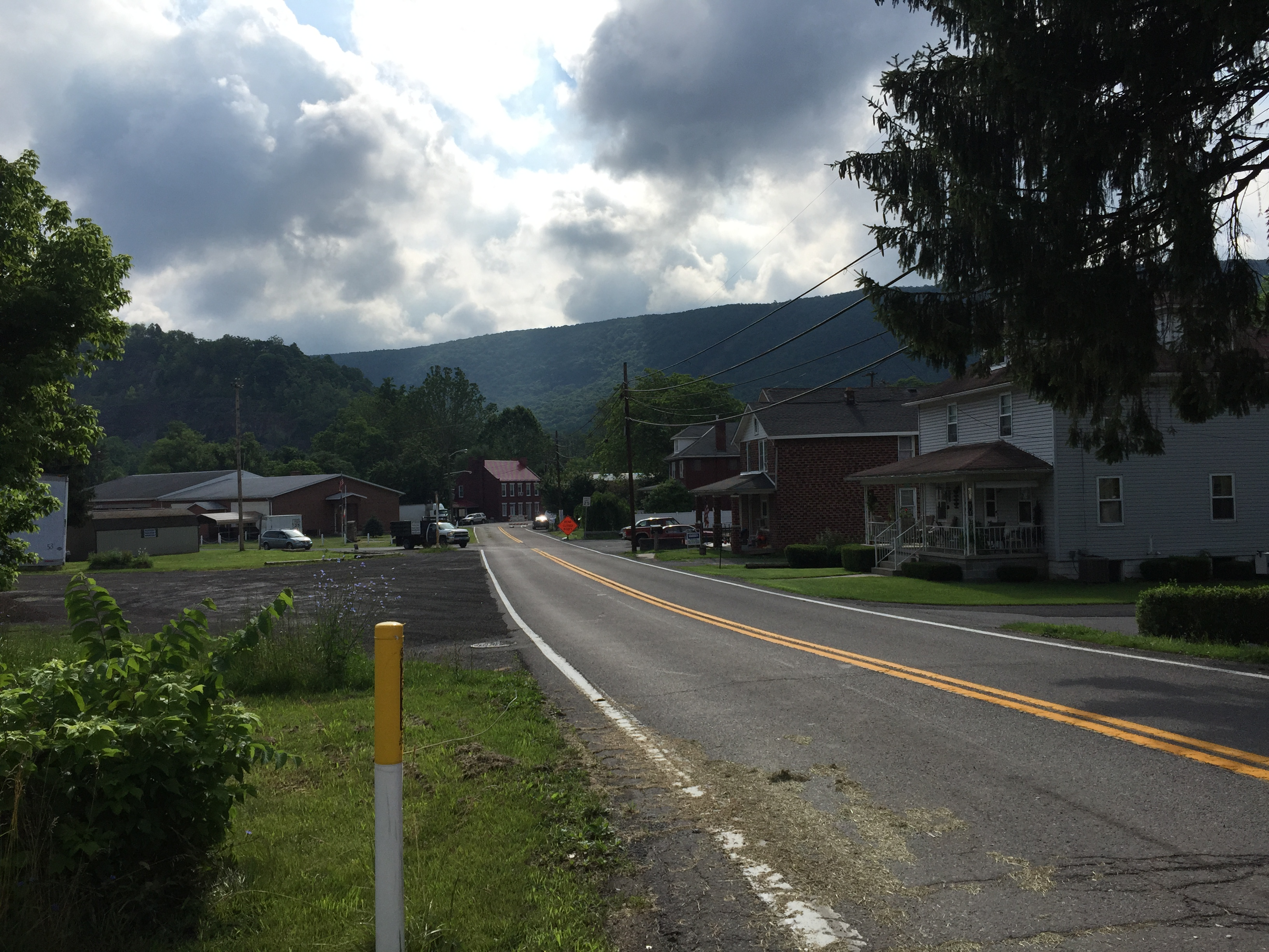 View east along Maryland State Route 831 (Kreighbaum Road) at Maryland State Route 35 (Ellerslie Road) in Corriganville, Allegany County, Maryland